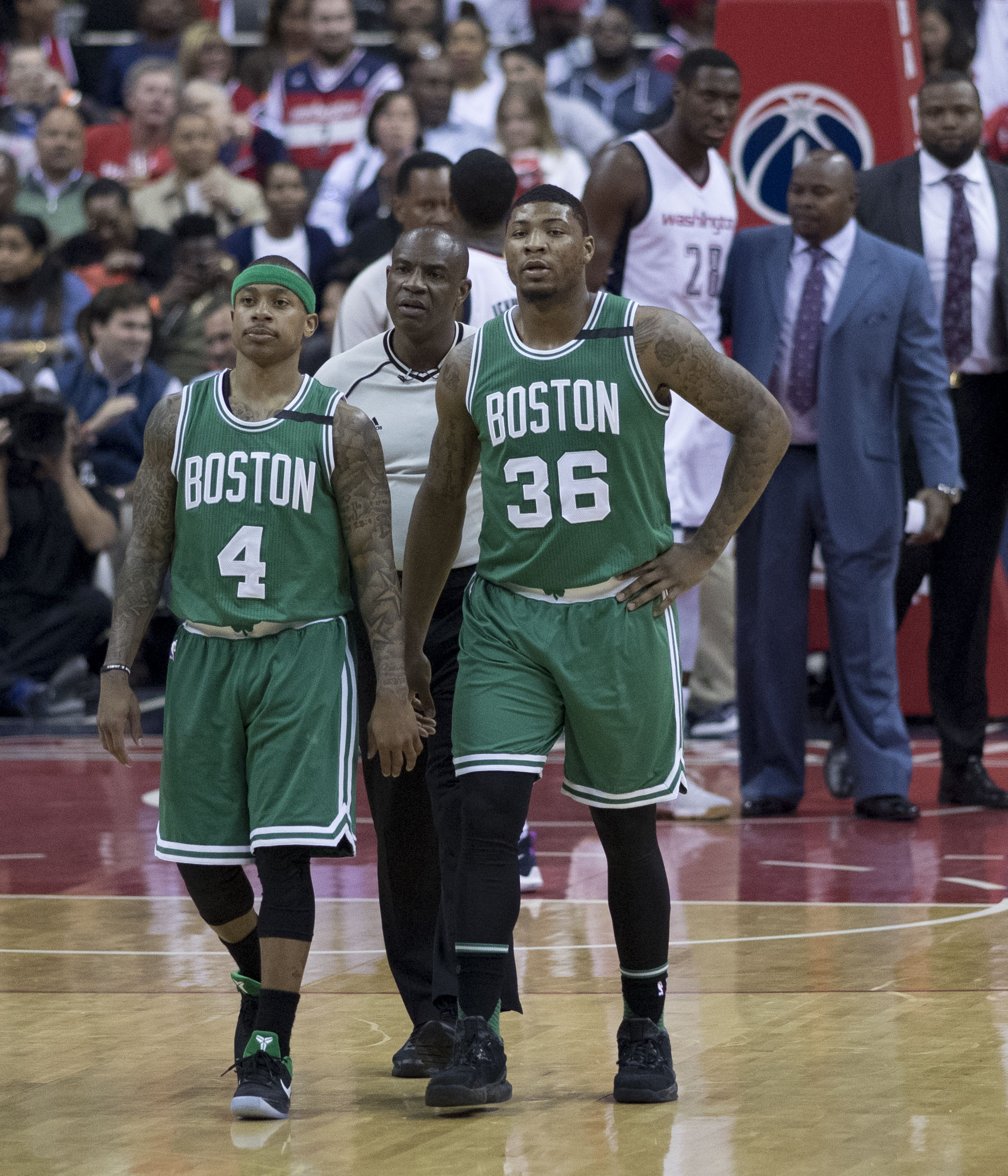 Celtics at Wizards 5/4/17